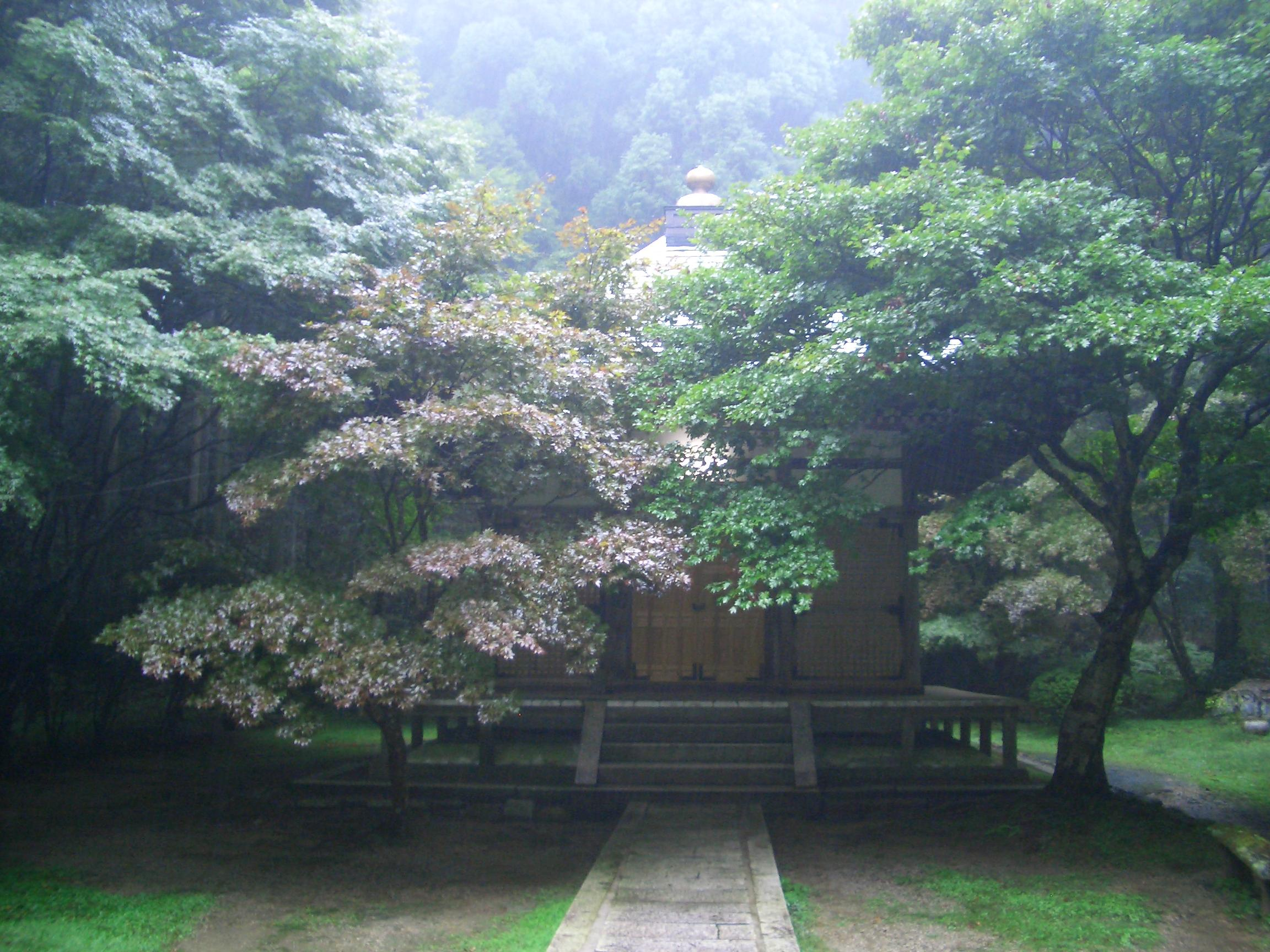 A building of the Enryaku-ji temple in Kyoto